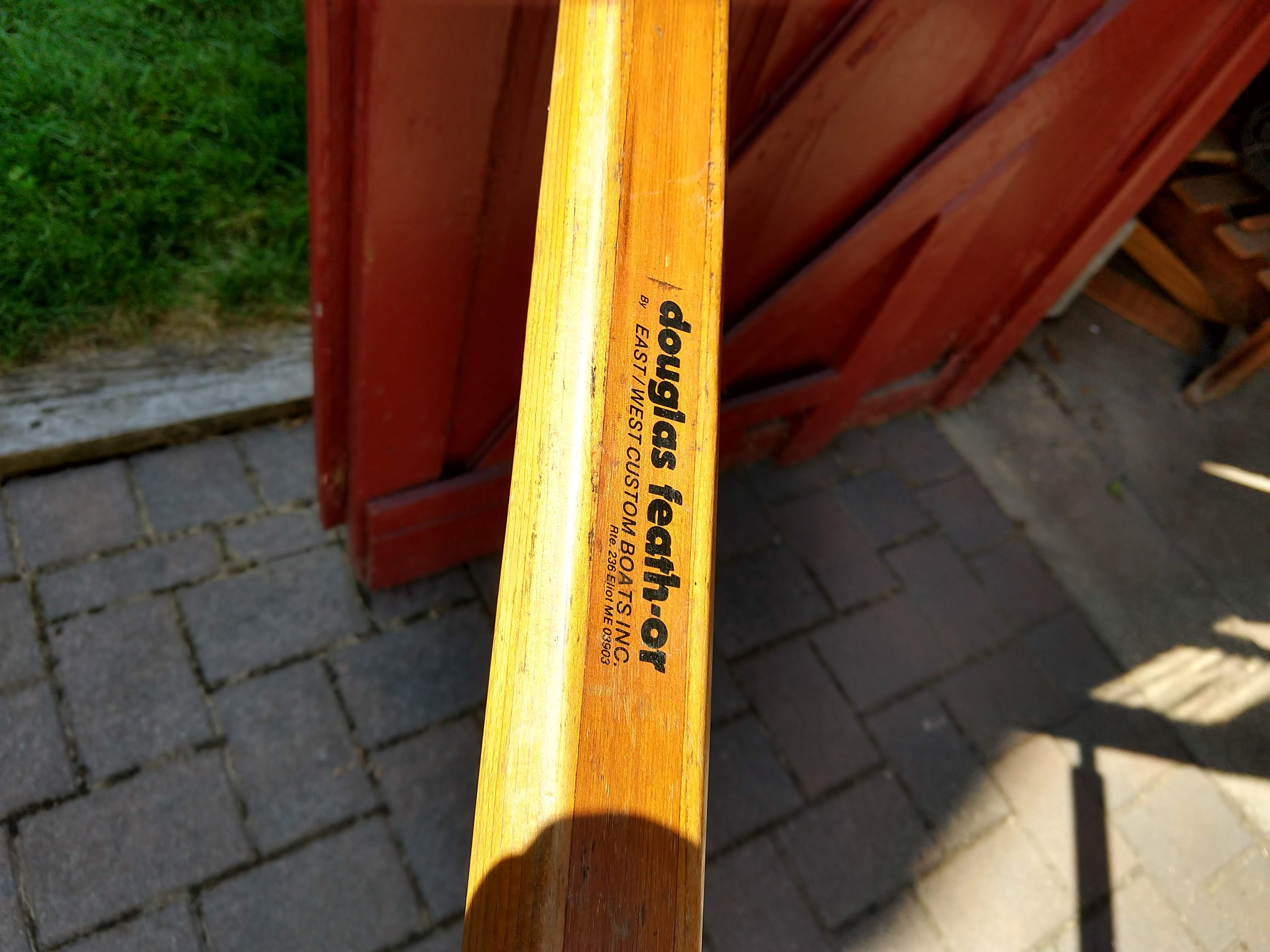 Spruce and mahogany sculling oar, original equipment with an Alden 18 2x/1x sculling boat. Writing reads: douglas feath-or By EAST / WEST CUSTOM BOATS INC. Rte 236 Eliot ME 03903